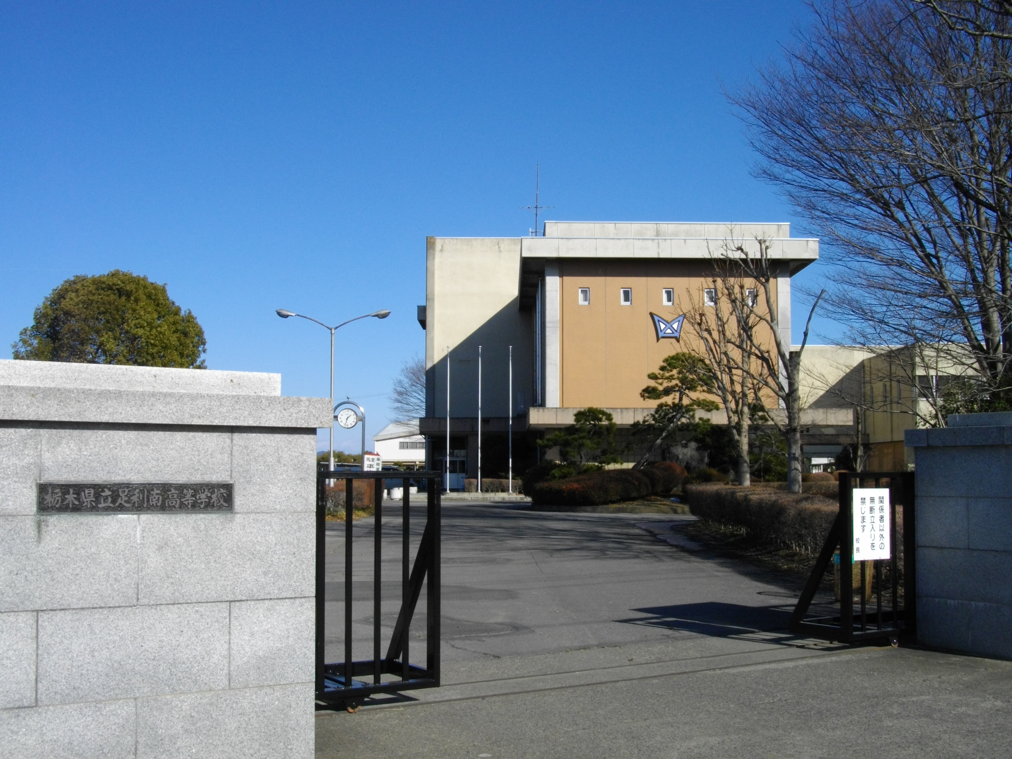 Ashikaga-Minami High School